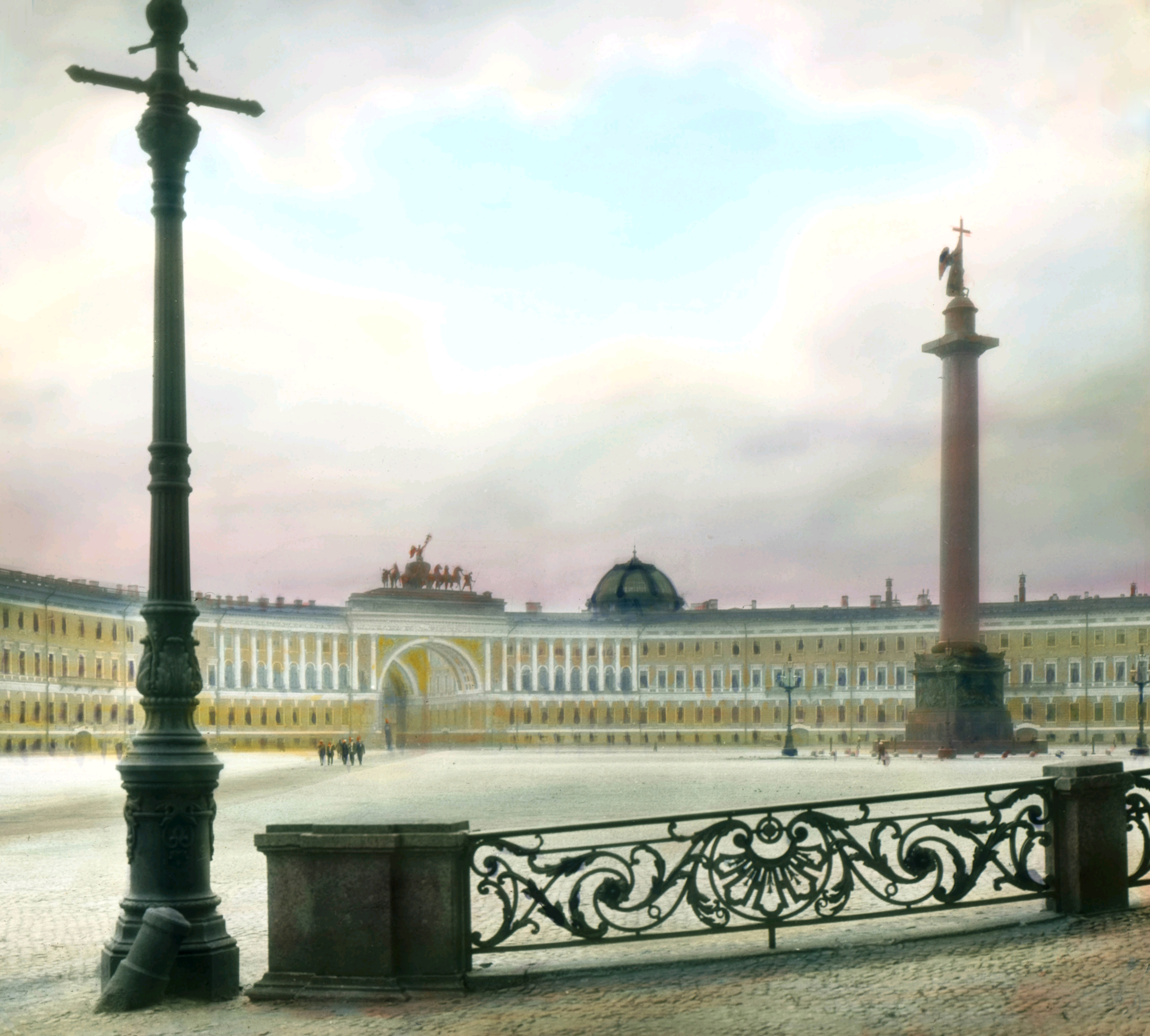 Saint Petersburg. Building of the General Staff view from across the Dvortsovaia (Palace) Square